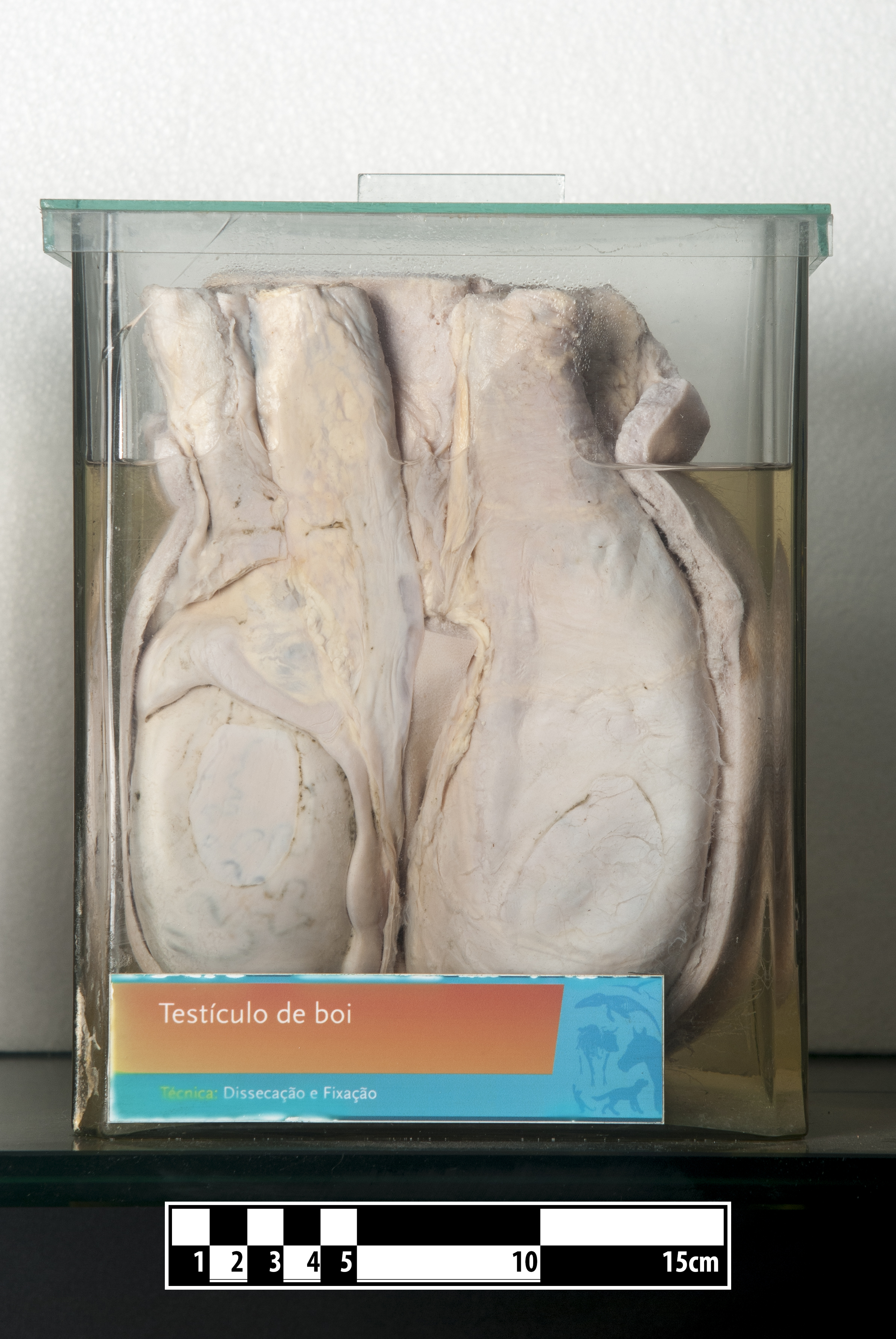 Ox testis. Bos taurus Technique of formalin fixation on display at the Museum of Veterinary Anatomy, FMVZ USP. This file was published as the result of a partnership between the Museum of Veterinary Anatomy FMVZ USP, the RIDC NeuroMat and the Wikimedia Community User Group Brasil. This GLAM project is reported.